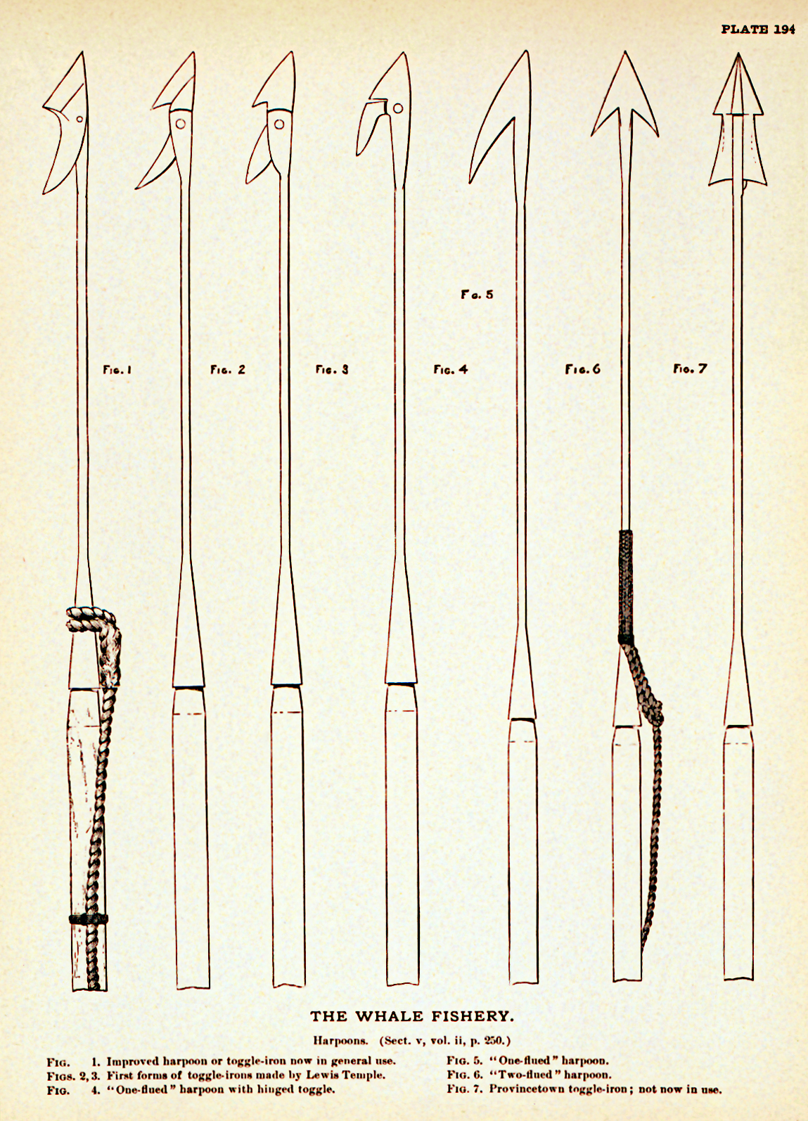 Whalemen's harpoons.(from NOAA's Historic Fisheries Collection)Fig. 1. Improved harpoon or toggle-iron generally in use [in 1887]Fig. 2 & 3: First form of toggle-iron made by Lewis TempleFig. 4. One-flued harpoon with hinged toggle.Fig. 5. One-flued harpoonFig. 6. Two-flued harpoonFig. 7. Toggle-iron invented by Provincetown whaleman, "not now in use" [in 1887]